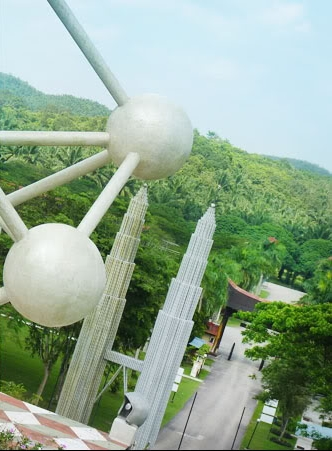 Petronas Twin TOwer at Tropical Village , Johor